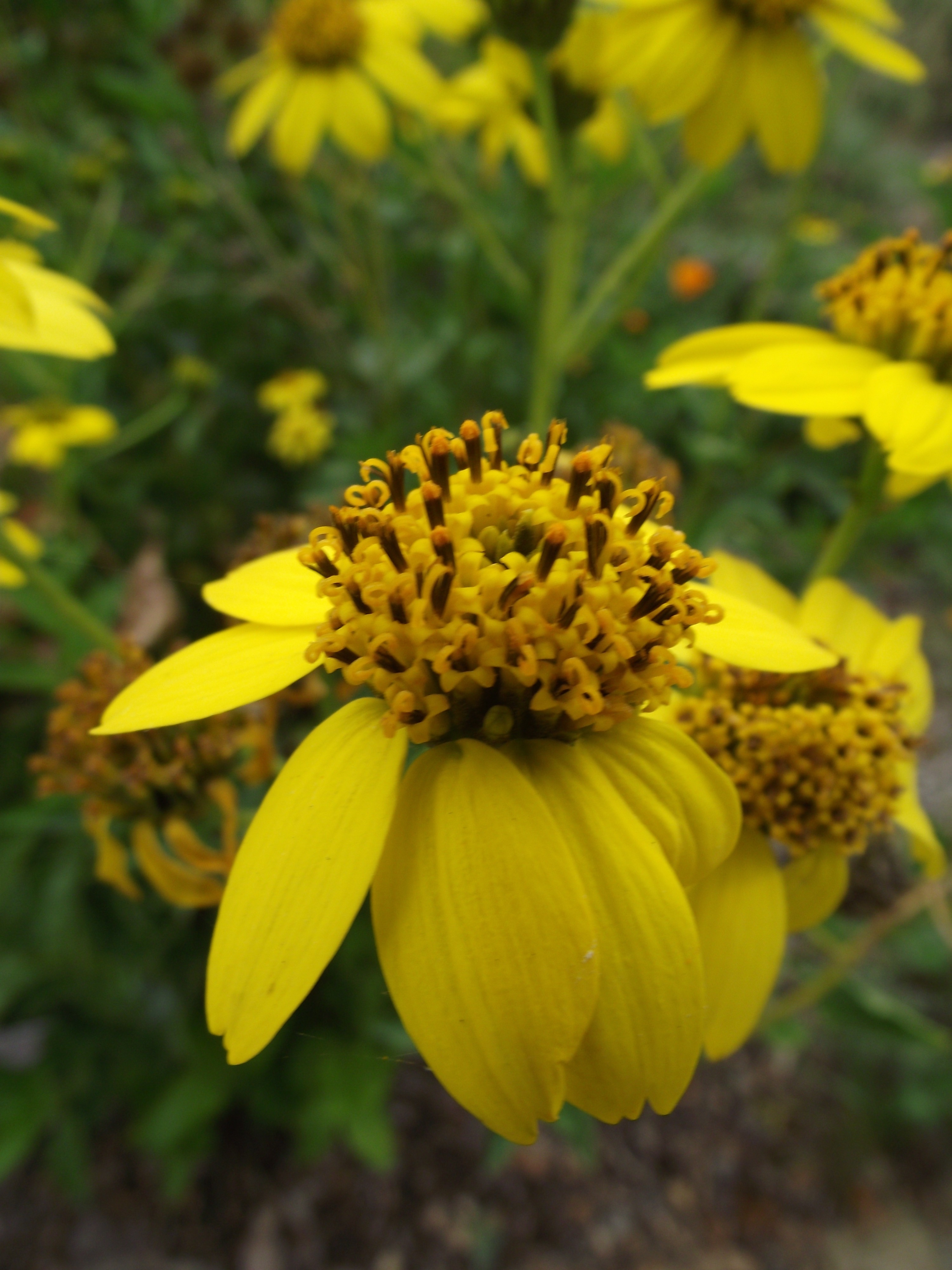 Verbesina hastata at Santa Barbara Botanic Garden, Santa Barbara, California, USA. Identified by sign.